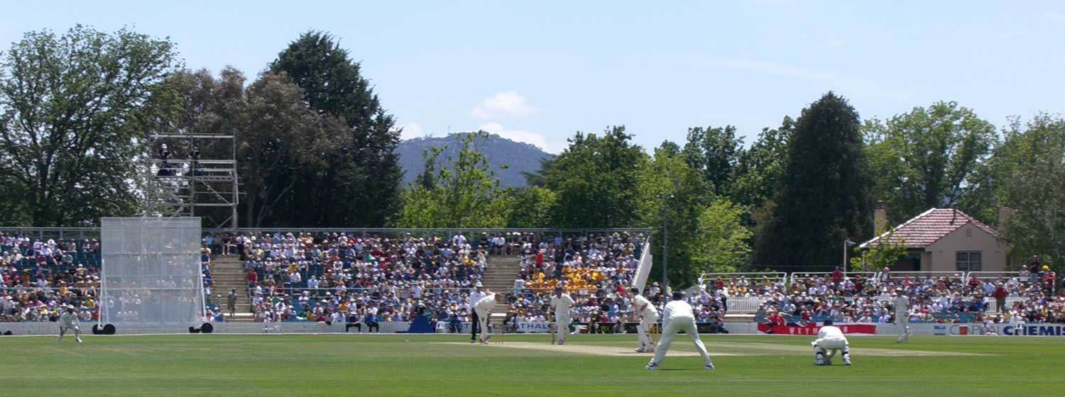 Australian PMXI playing England at the Nov 10 2006 Prime Minister's XI match in Canberra, with Mount Ainslie in the distance. I took this photo